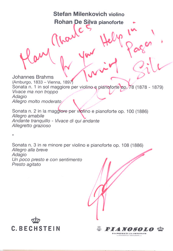 Genoese concert programme autographed by Stefan Milenkovich